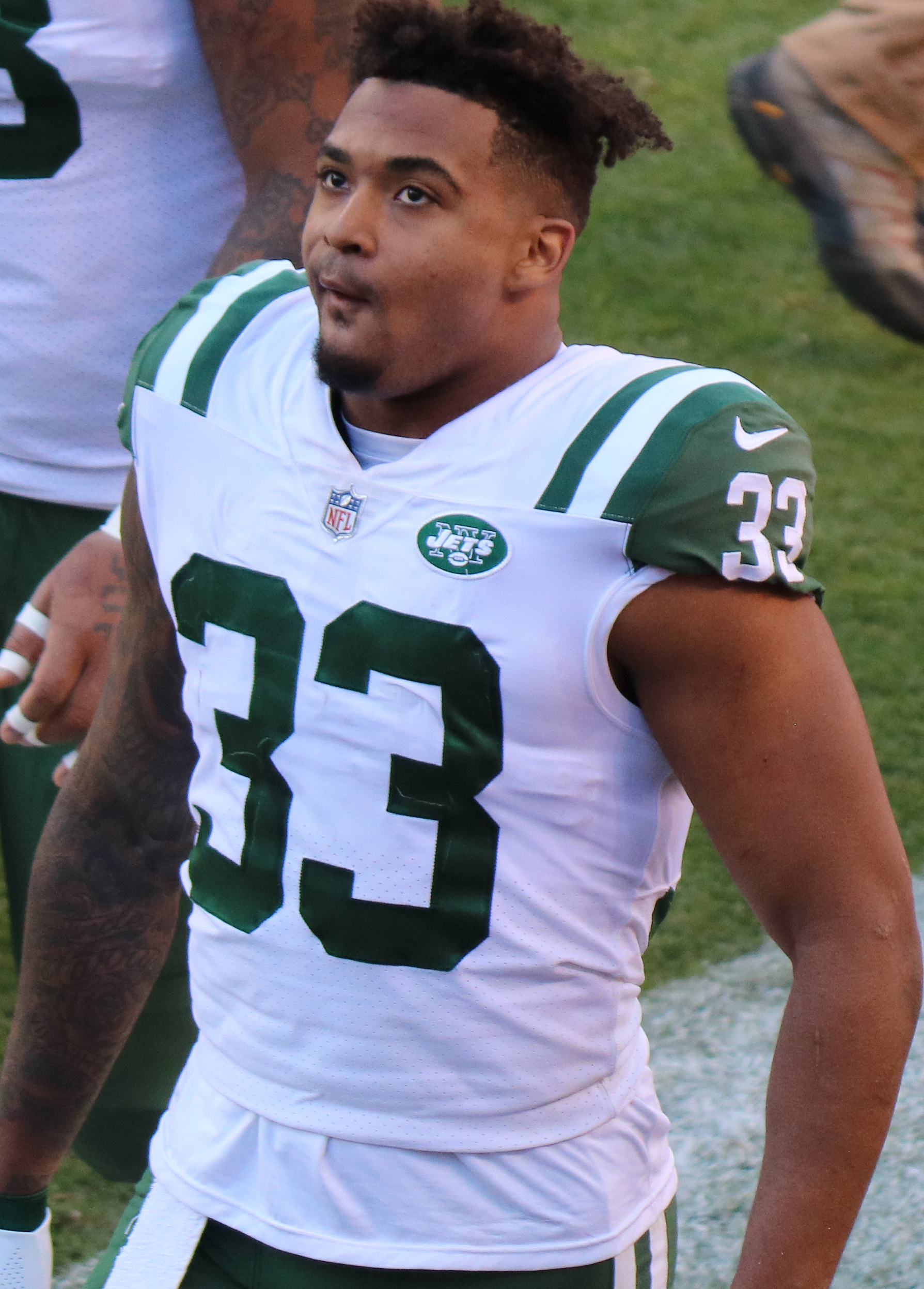 Jamal Adams, a National Football League player.